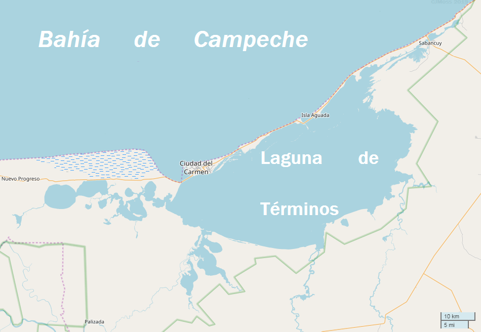 Laguna de Términos lies in Mexico in the Bay of Campeche, the southern bight in the Gulf of Mexico. It is the largest and one of biologically the richest tidal lagoons located entirely on the Gulf Coast of Mexico.